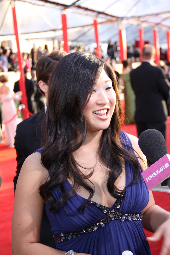 Jenna Ushkowitz at the Screen Actors Guild Awards at the Shrine Auditorium on January 23rd, 2010.